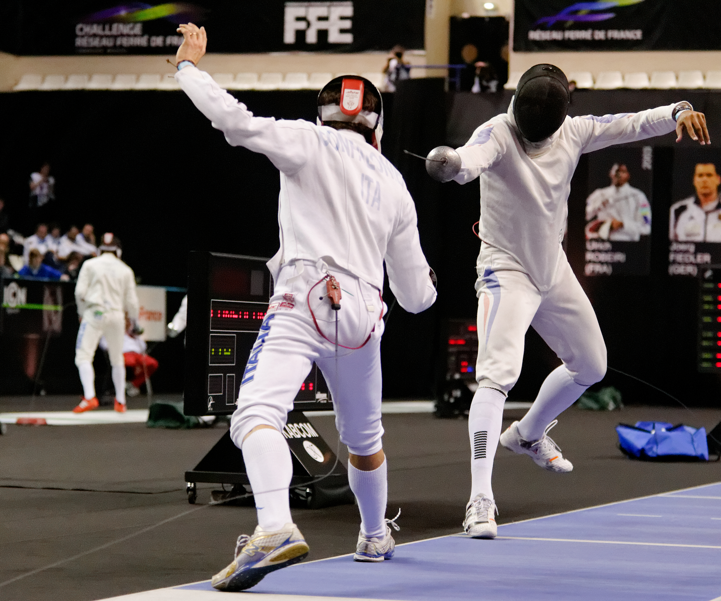 1/16 finals of the Challenge Réseau Ferré de France–Trophée Monal 2012: Diego Confalonieri (left) and Yannick Borel (right).